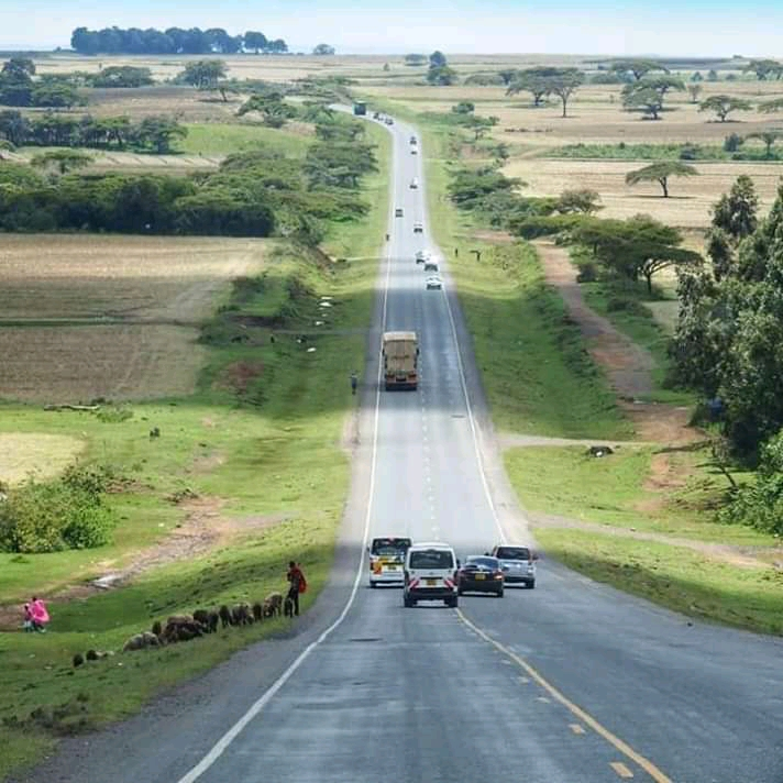 The personal cars and one Nissan PSV head to bomet for business purposes. This road welcomes you for the way to the greatest beholder of the Eighth wknder of the world, Maasai mara National reserve. The maasai man hesrding just offroad welcomes us to the rich culture of the maasai tribe living around the area. Sometimes, lions from the reserve traverse up to this area. This is bravery in one picture. The vehicles represent the business minds in Kenya. A good place for investment. This is an image with the theme "Africa on the Move or Transport" from: Kenya